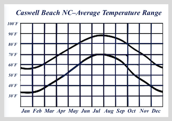 Average range of temperatures by month over an extended period of time